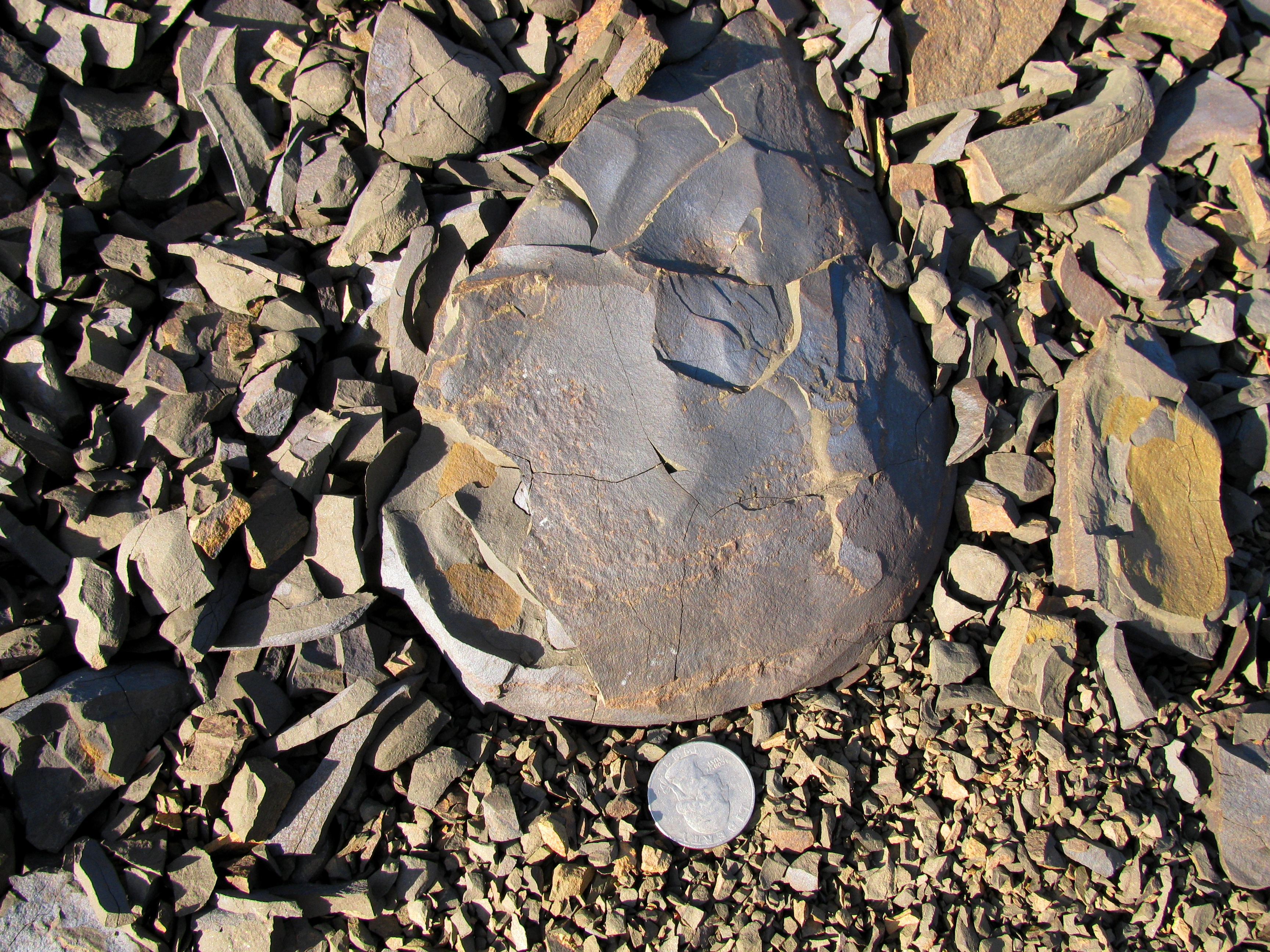 Close-up of weathered Juncal shale formation. Santa Ynez Mountains, California; photo by self, GFDL/equiv. Quarter for scale.